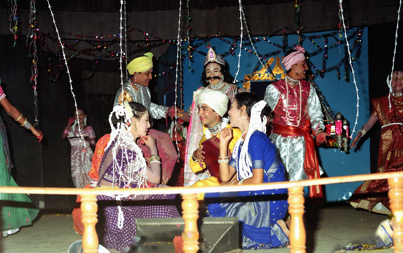 Raas Leela Celebrations at Goramur,Majuli Island,Assam India